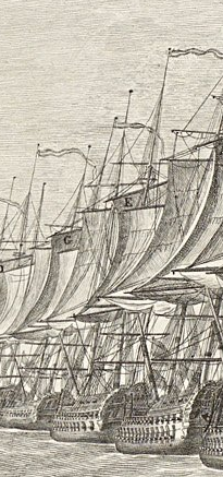 The Dutch ship Batavier (E) during the Battle of the Dogger Bank on 5 August 1781.